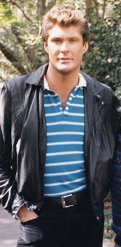 David Hasselhoff in 1986